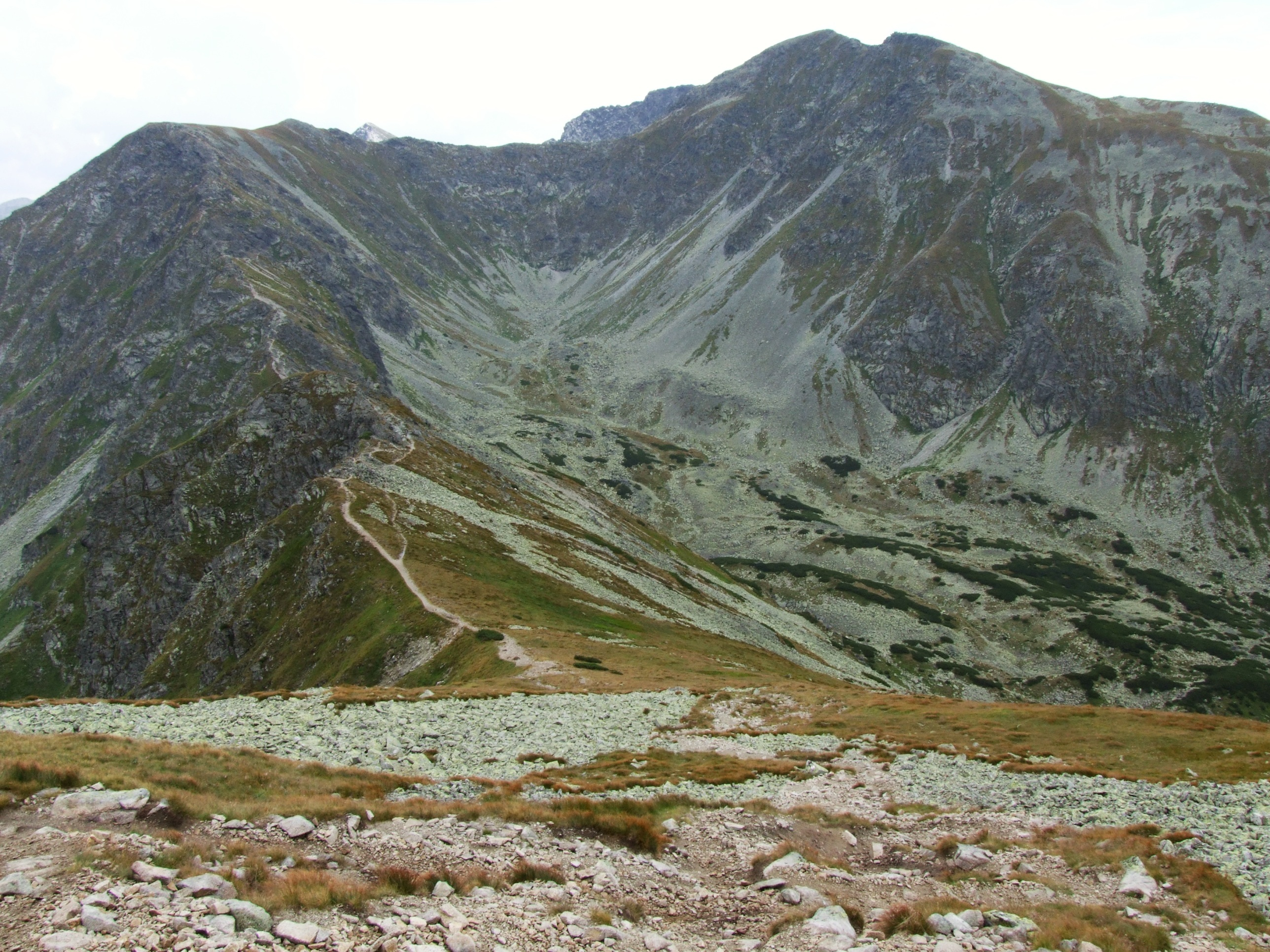 Spalona Kopa, Pachola (West Tatra Mountains)